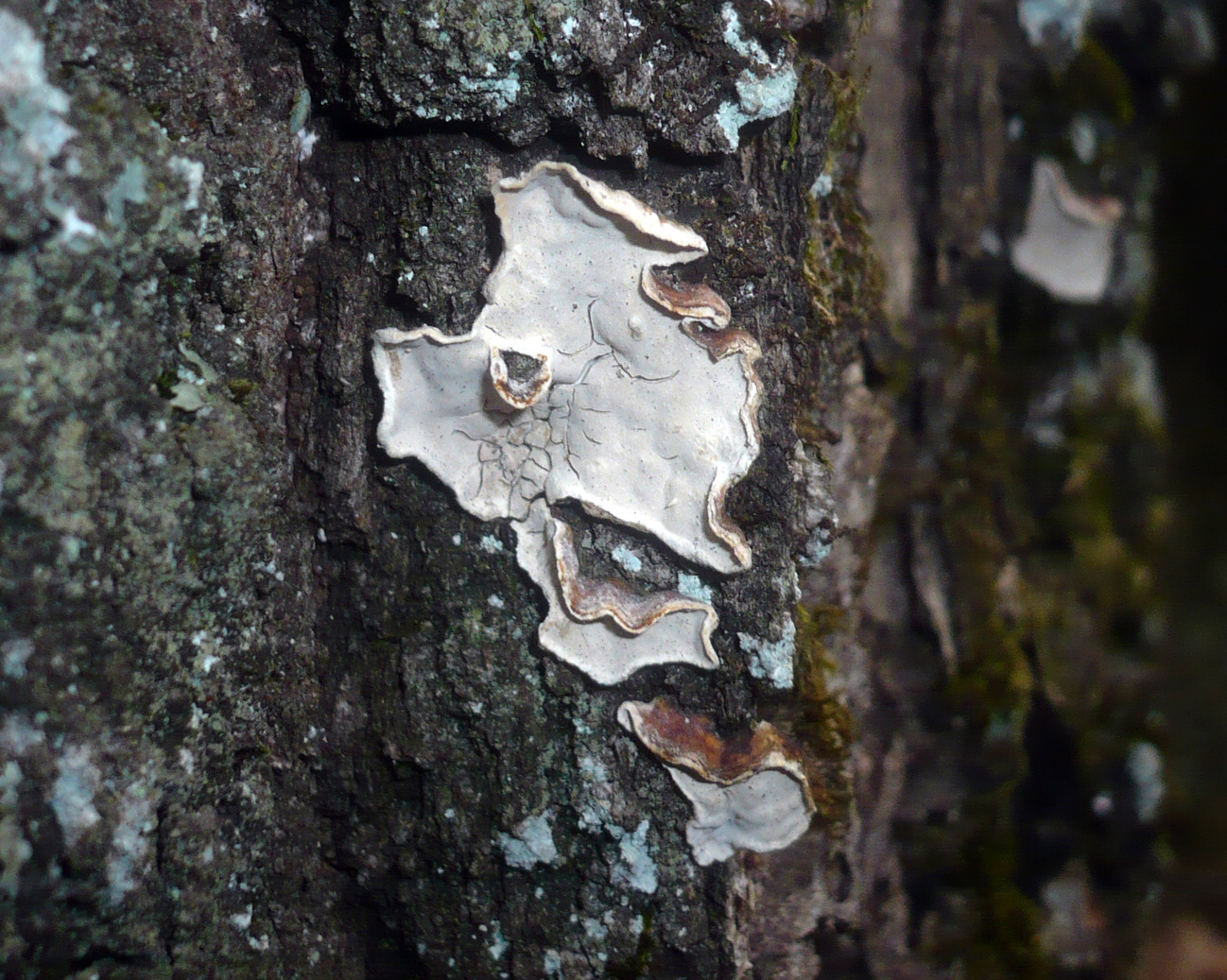 The corticioid fungus Aleurodiscus disciformis. Photographed in Khartwald, Rechnitz, Bezirk Oberwart, Burgenland, Austria.